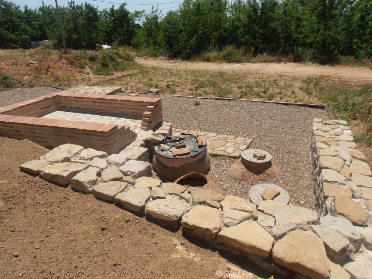 Reconstruction of the ruins of the medieval fortress on St. Atanas Cape in Byala, Varna Province, Bulgaria